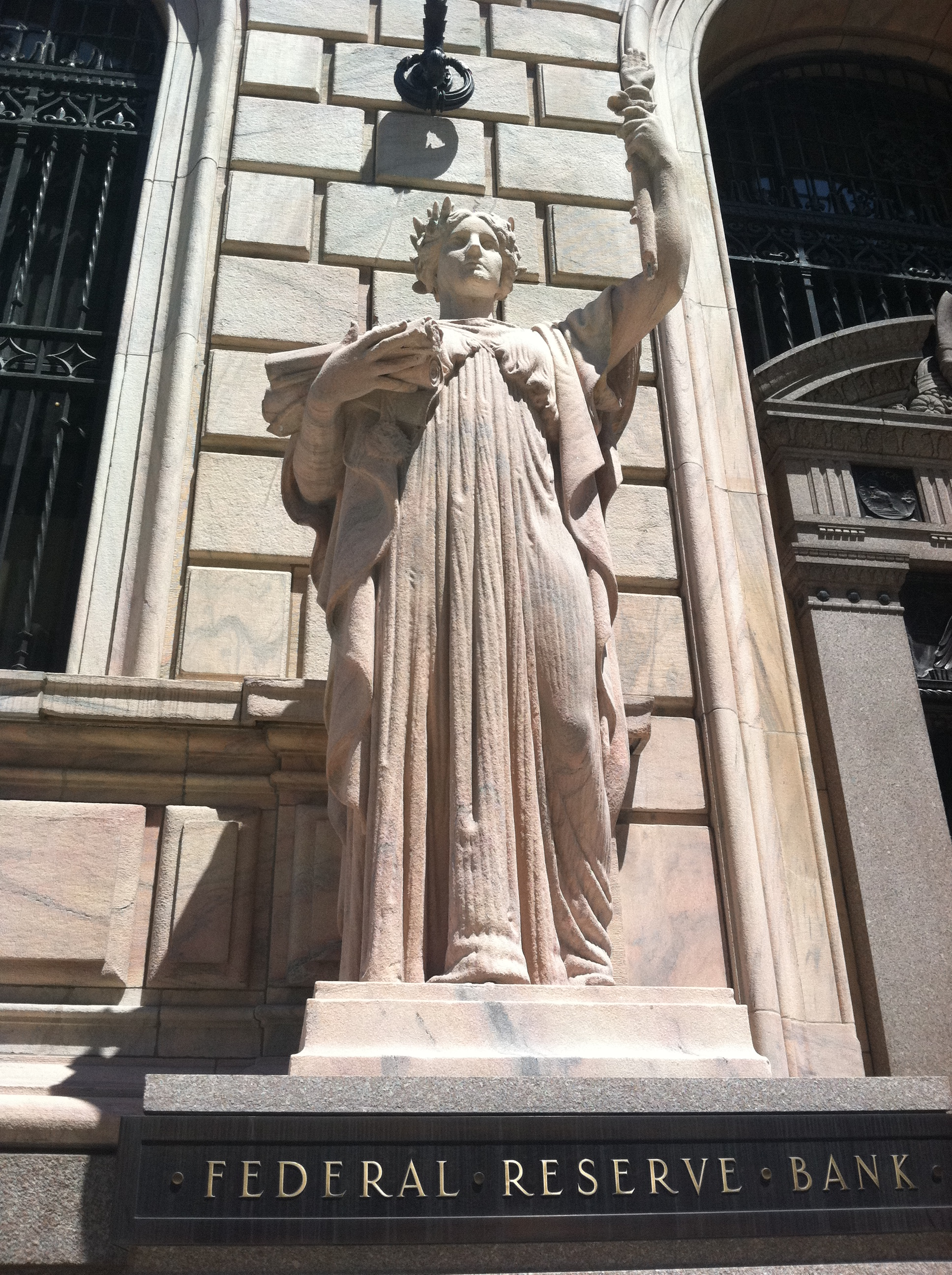 One of two sculptures by Henry Hering flanking the west entrance of the Federal Reserve Bank of Cleveland